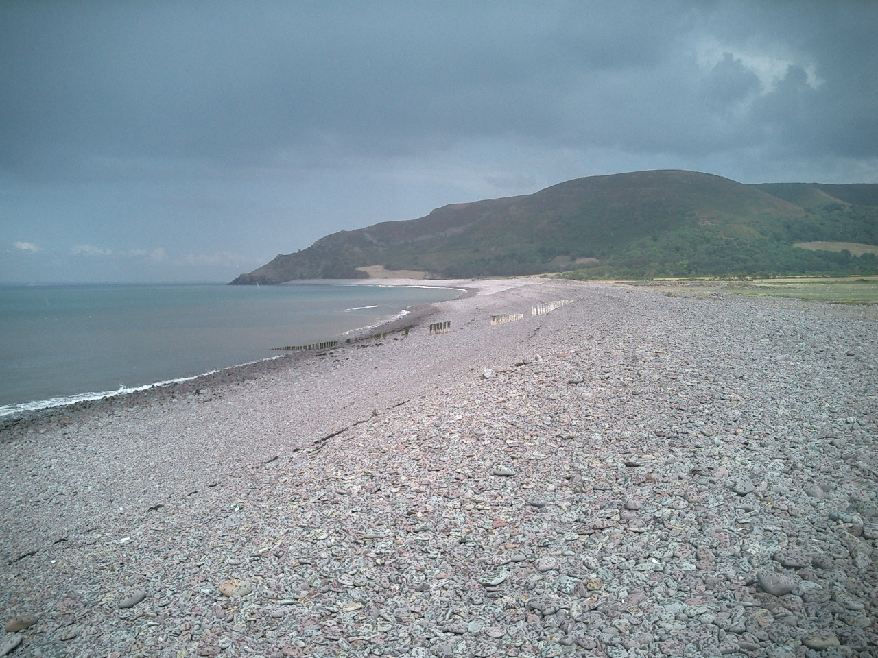 my photo of Porlock beach